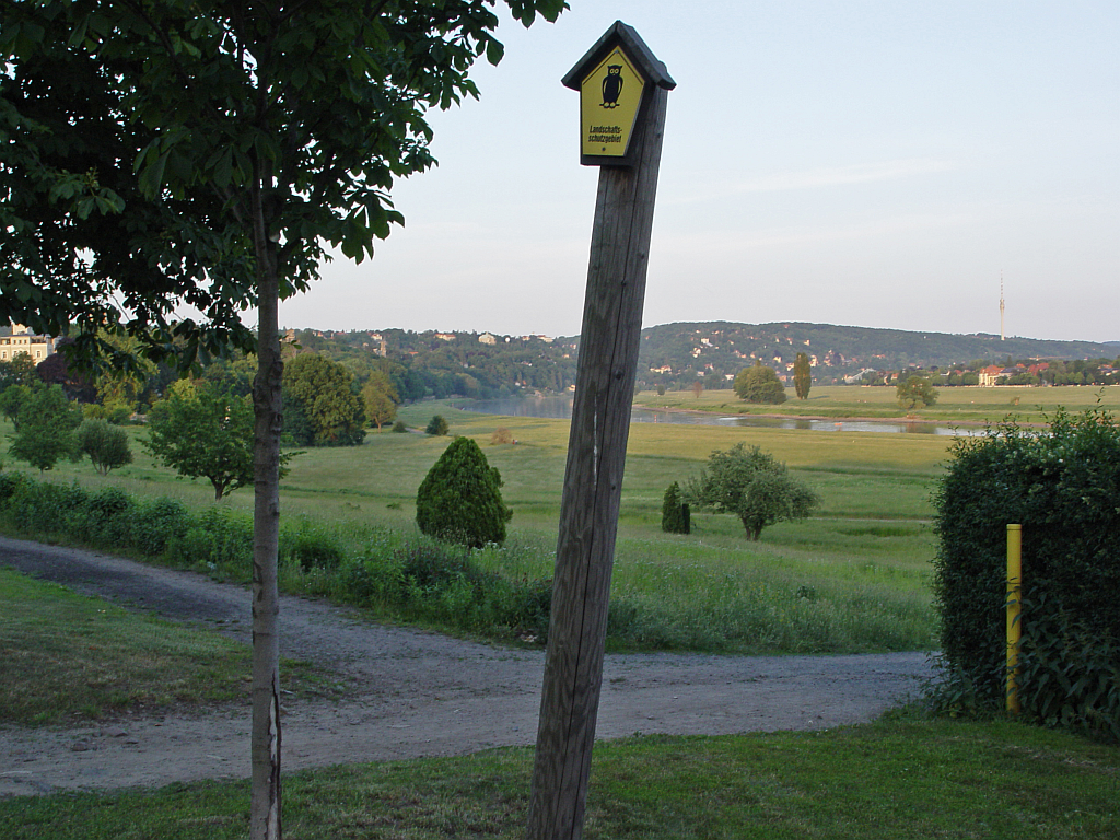 construction location of the Waldschloesschen bridge in Dresden, Germany